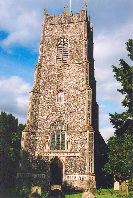 St Mary's parish church, Wilby, Suffolk, seen from west-southwest